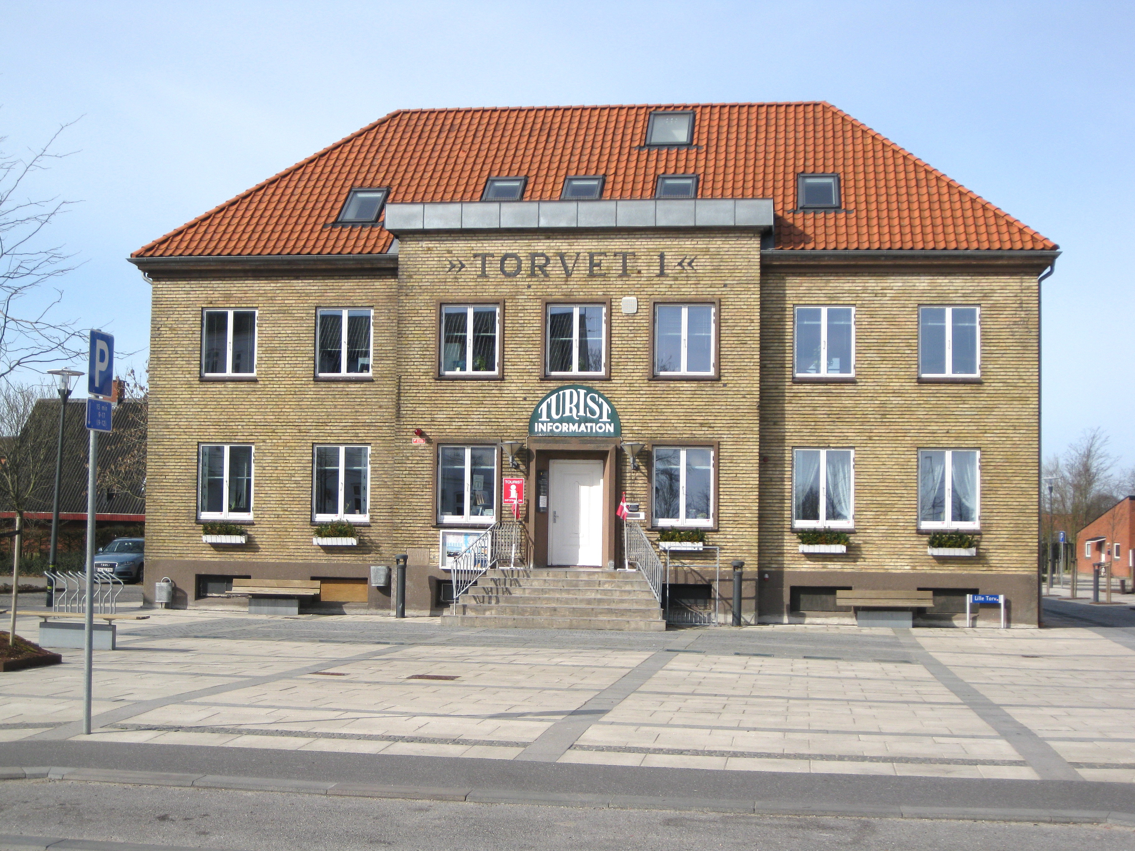 The Tourist Information in the small town "Farsø". The town is located in North Jutland, Denmark.